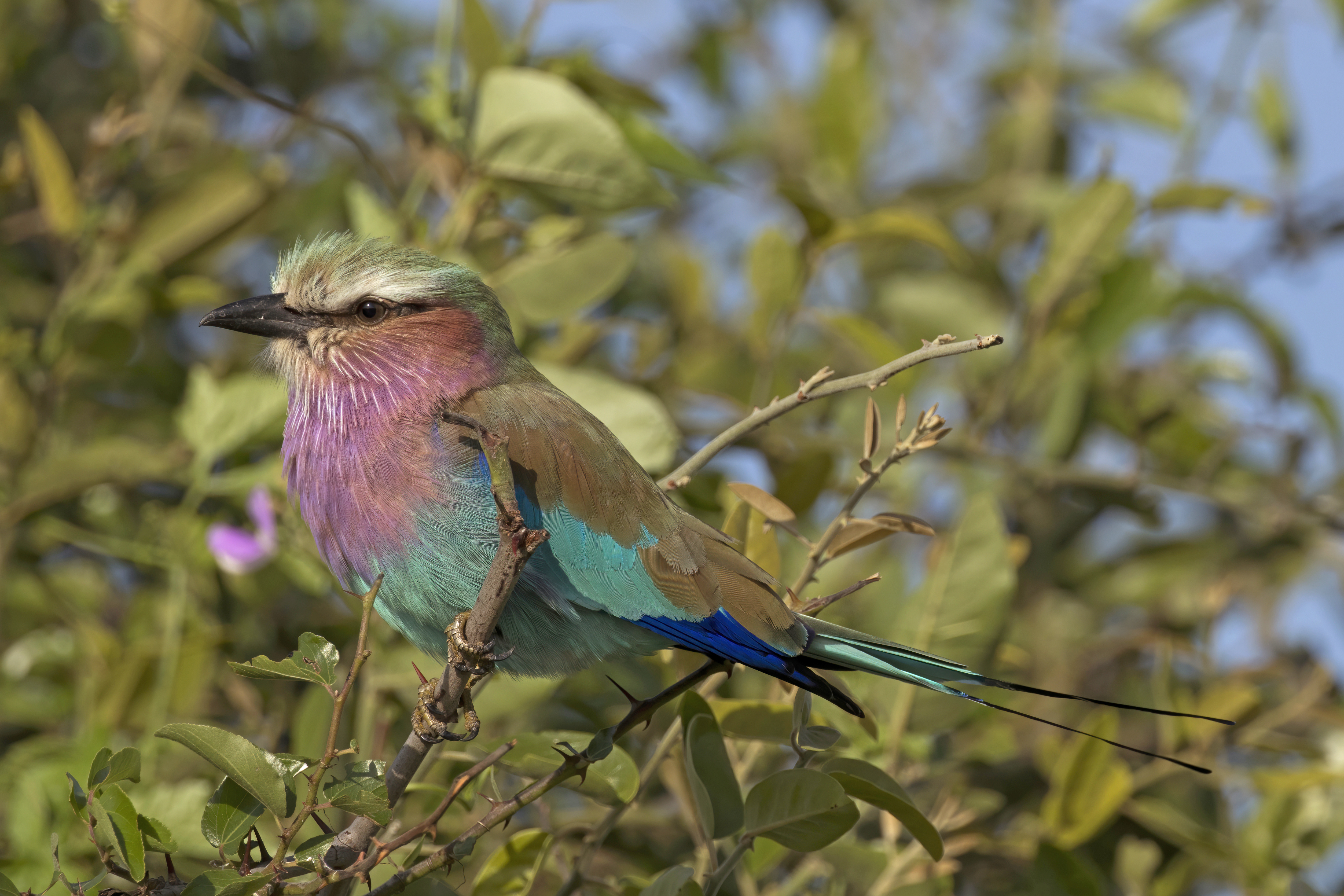 Lilac-breasted roller (Coracias caudatus caudatus), Chobe National Park, Botswana. Rollers have syndactyl feet with the second and third toes fused together. The leg scales are shown clearly.